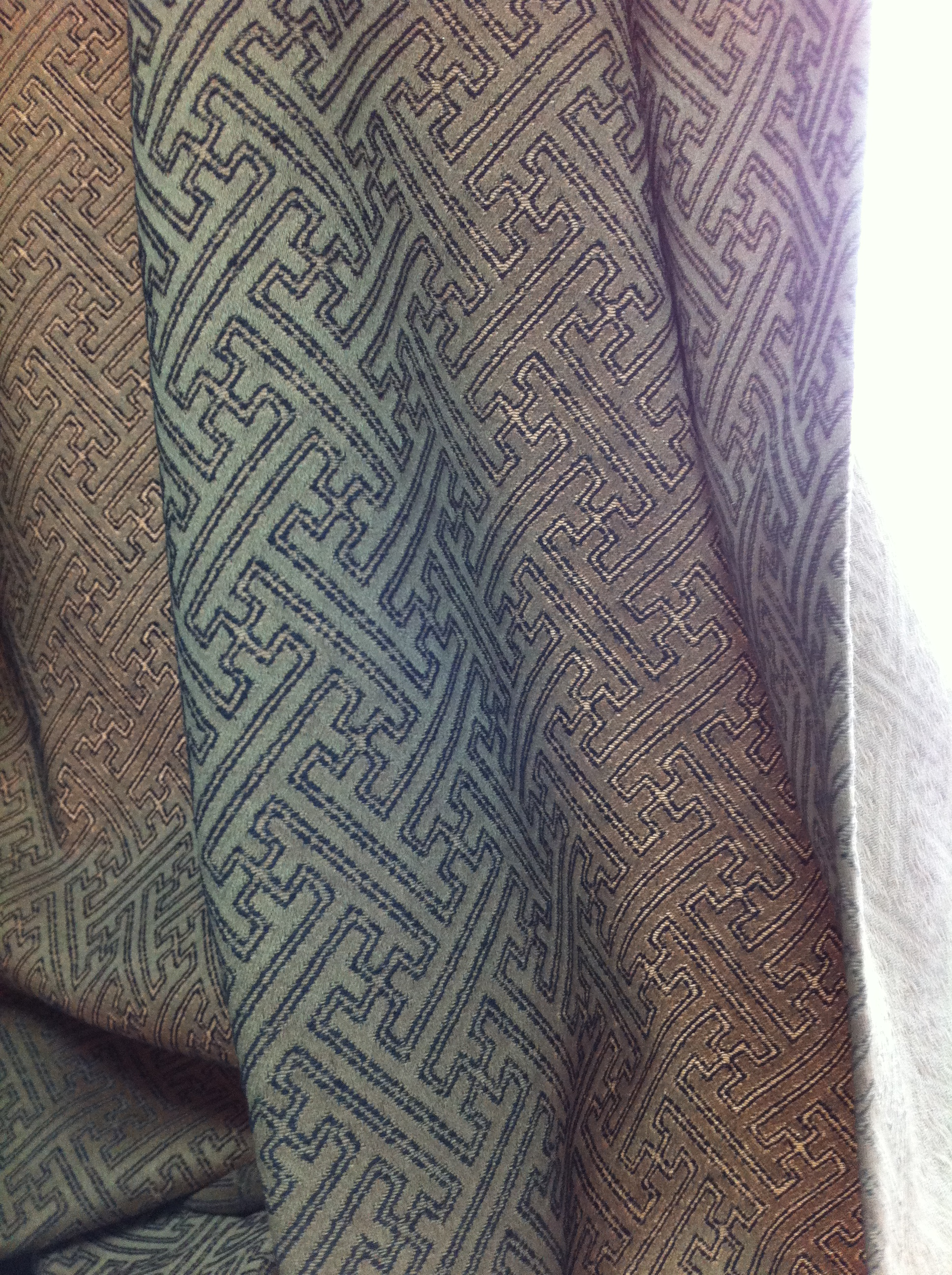 A curtain with endless non-nazi swastikas, or sayagata in Japanese.